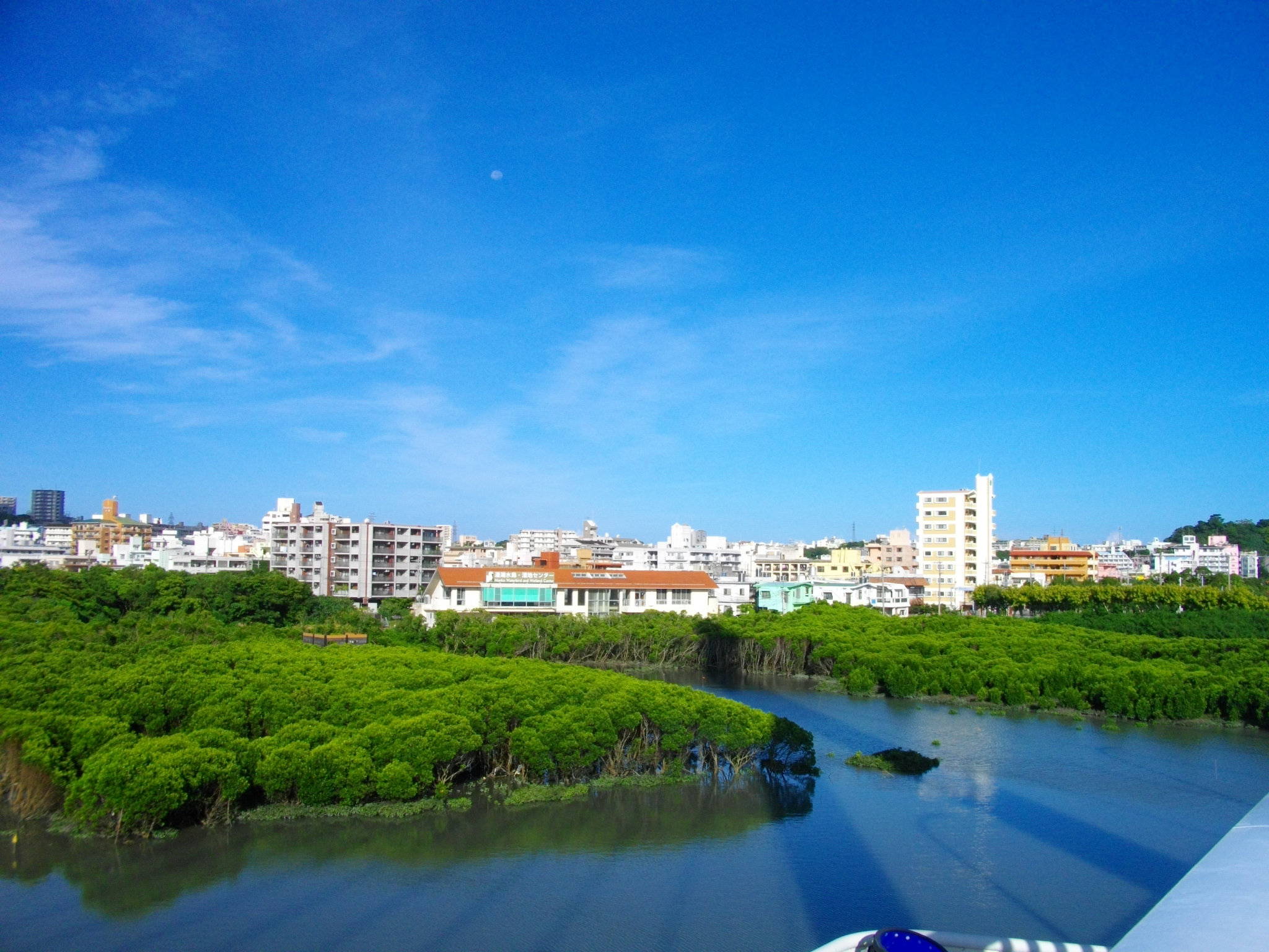 Lake Man